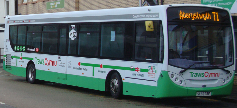 First Cymru Envrio 300 bus at Aberystwyth in TrawsCymru livery for the T1 service